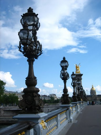 Pont_Alexandre_III_4.jpg